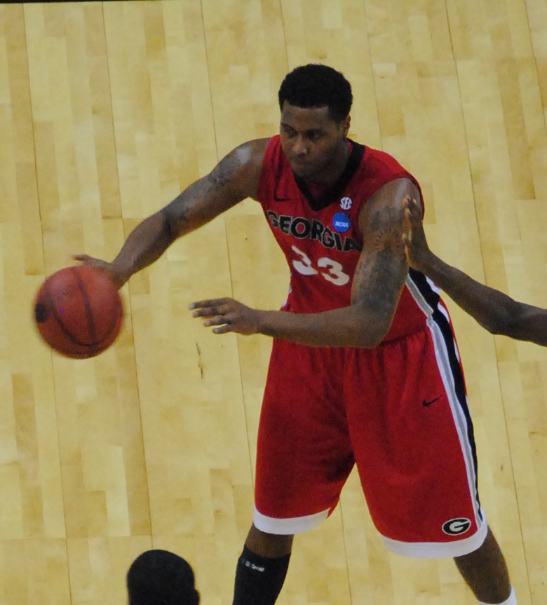 Trey Thompkins works against the Huskies